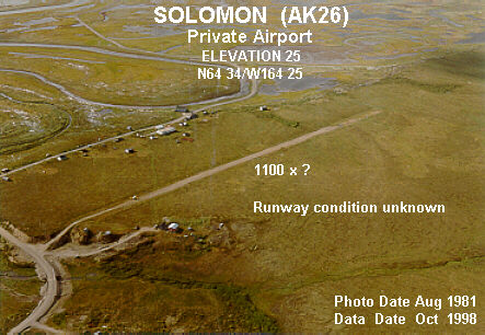 This is an official photo of the Solomon Airport, an airport near Nome, Alaska.